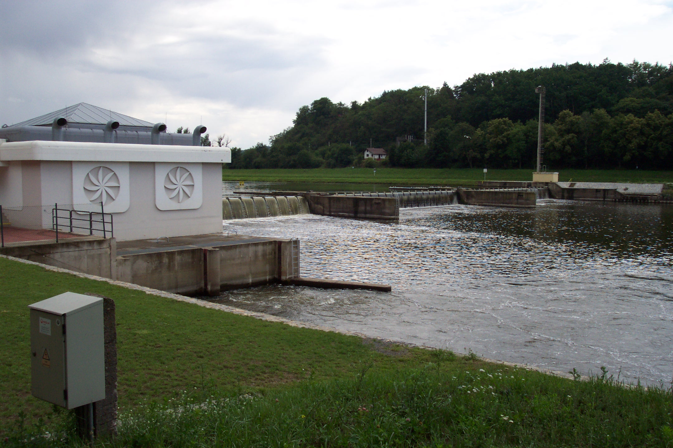 Hydro power plant in Klecany